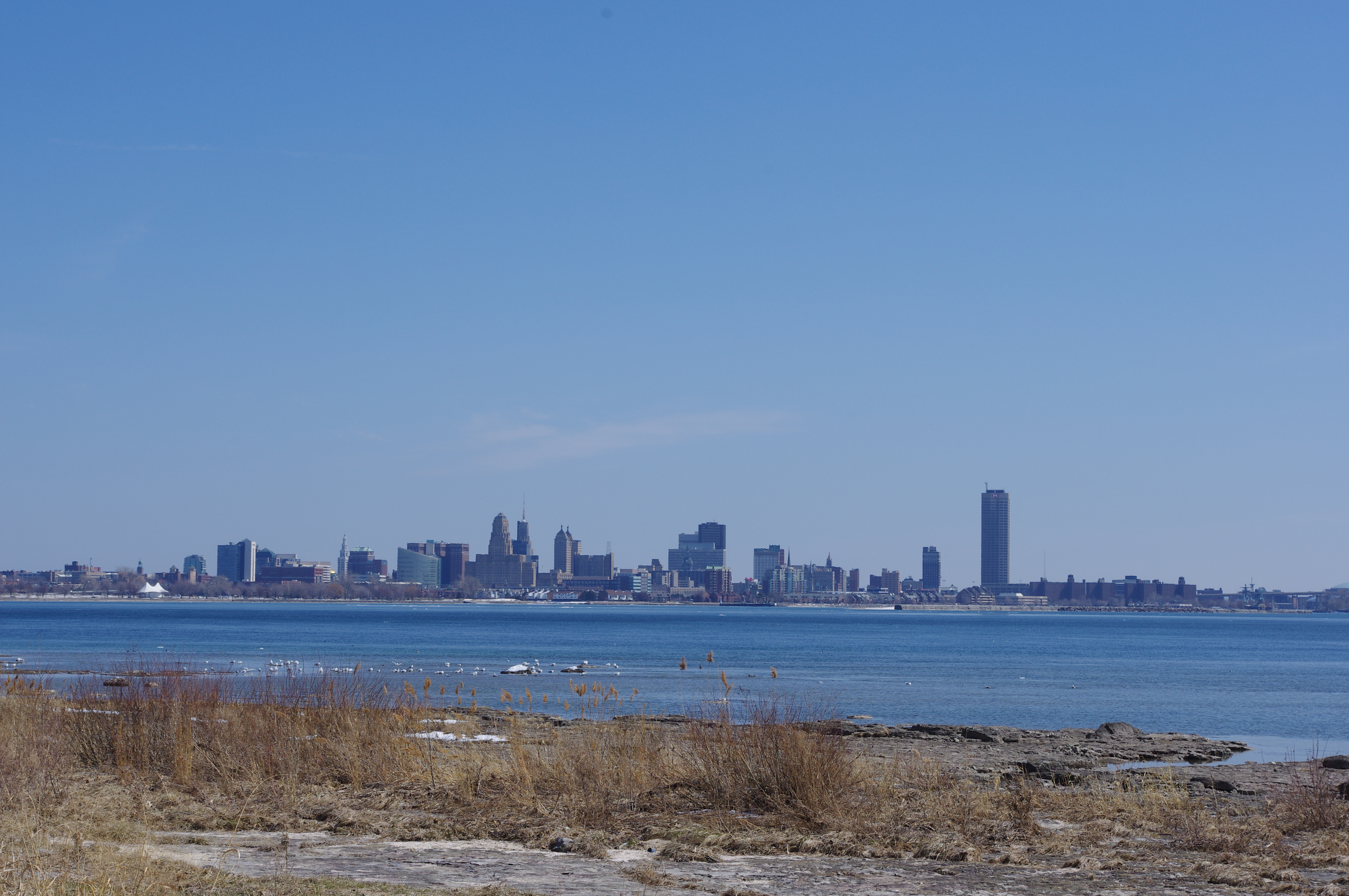 Taken on the shore of Lake Eire in Canada.